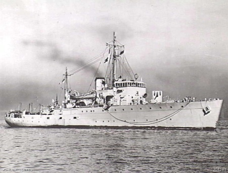 SYDNEY, NSW. 1944-03-16. STARBOARD SIDE VIEW OF THE CORVETTE HMAS ROCKHAMPTON. HER 12 POUNDER AA GUN ON THE FORECASTLE IS TRAINED TO STARBOARD. HER CLOSE RANGE ARMAMENT CONSISTS OF THREE SINGLE 20 MM OERLIKON AA GUNS, ONE IN EACH BRIDGE WING AND ONE AFT. HER PENNANT NUMBER, J203, IS NOT PAINTED UP. (NAVAL HISTORICAL COLLECTION)